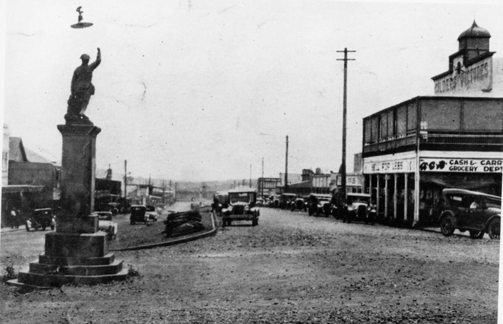 Atherton Main Street near the war memorial statue, Queensland, 1928. Cars parked along Main Street and outside the General Store.